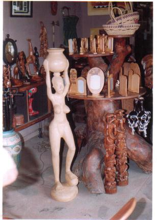 Wood carvings/handicrafts in Festac Town, Lagos, Nigeria. Photo taken by me, Heather, 13 May, 2005.